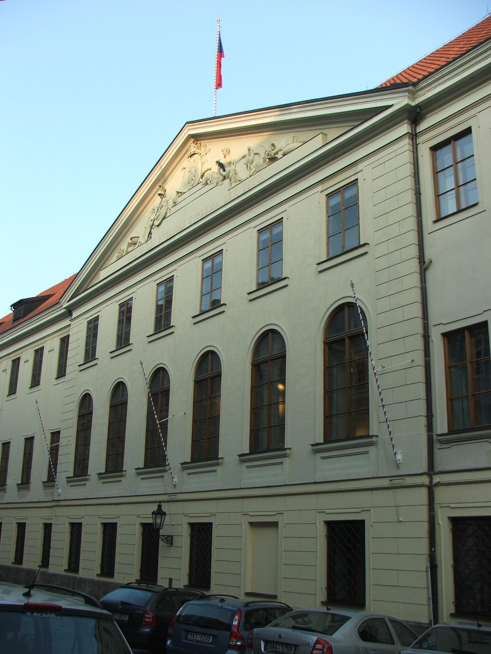 Chamber of Deputies (Sněmovna) of Parliament of the Czech Republic in Prague - Malá Strana, Sněmovní street.